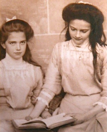 Grand Duchesses Maria and Tatiana Nikolaevna of Russia